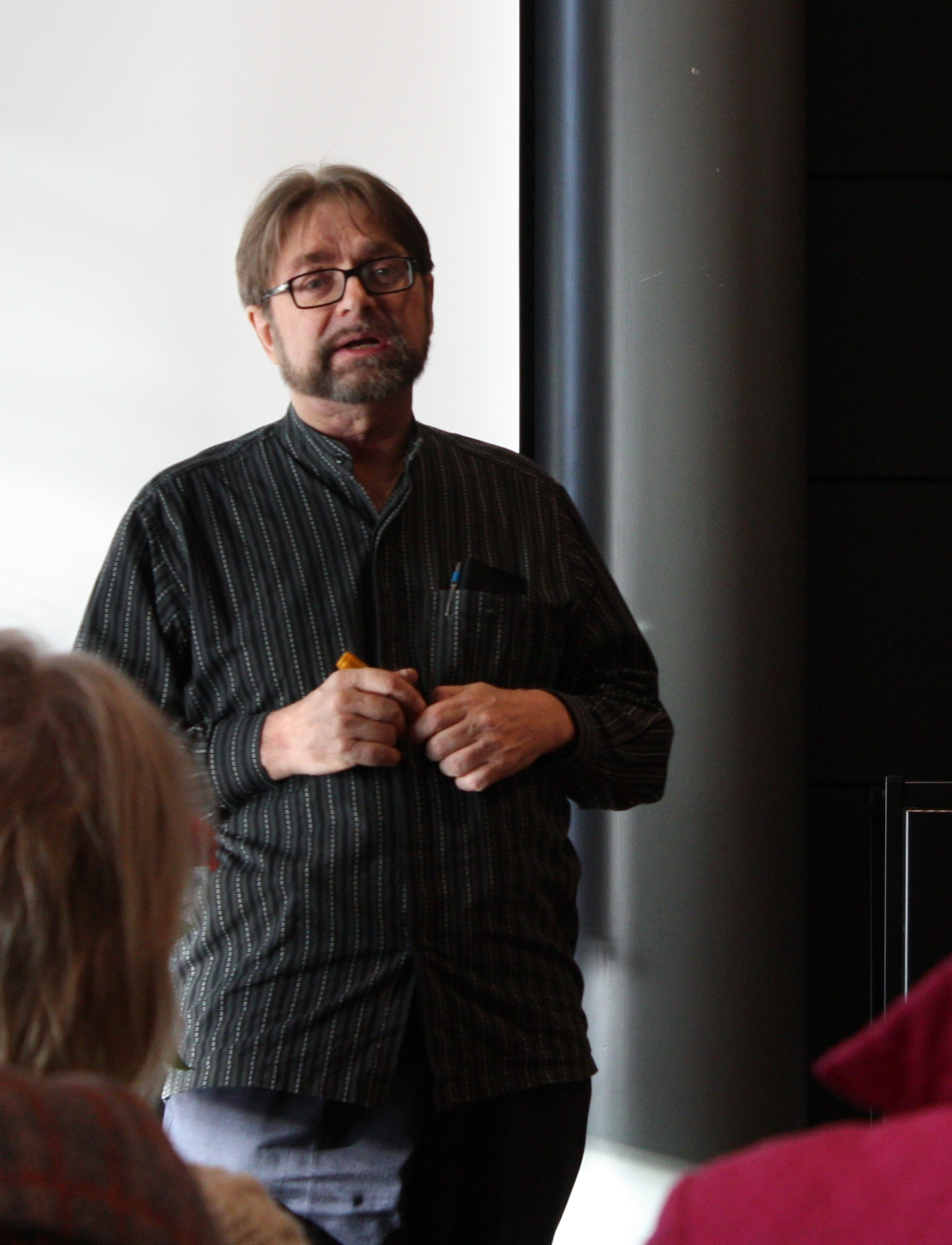 Finnish composer and writer Eero Hämeenniemi speaking during Juuret-tapahtuma (The Roots Happening) in Kerava 2009